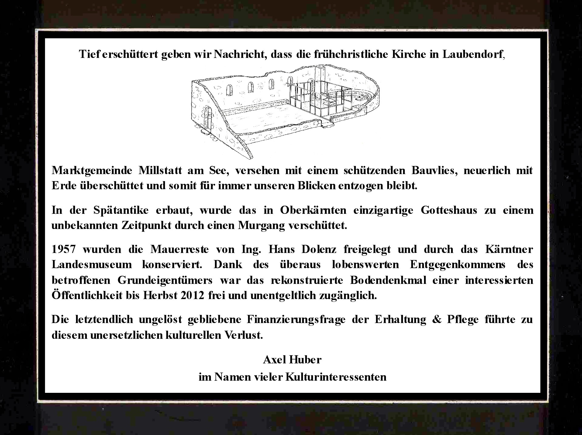 Protest against the filling up of a floor monument in the form of an obituary. Ruin of an early christian church in Laubendorf near Lake Millstatt (Millstätter See), district Spittal an der Drau in Carinthia / Austria / EU. The church was open to the public for 55 years. The landowner has a listed property is now filled in with earth. Neither the municipality Millstatt am See, even the tourist office or the region of Carinthia is ready, the land owner to pay compensation.